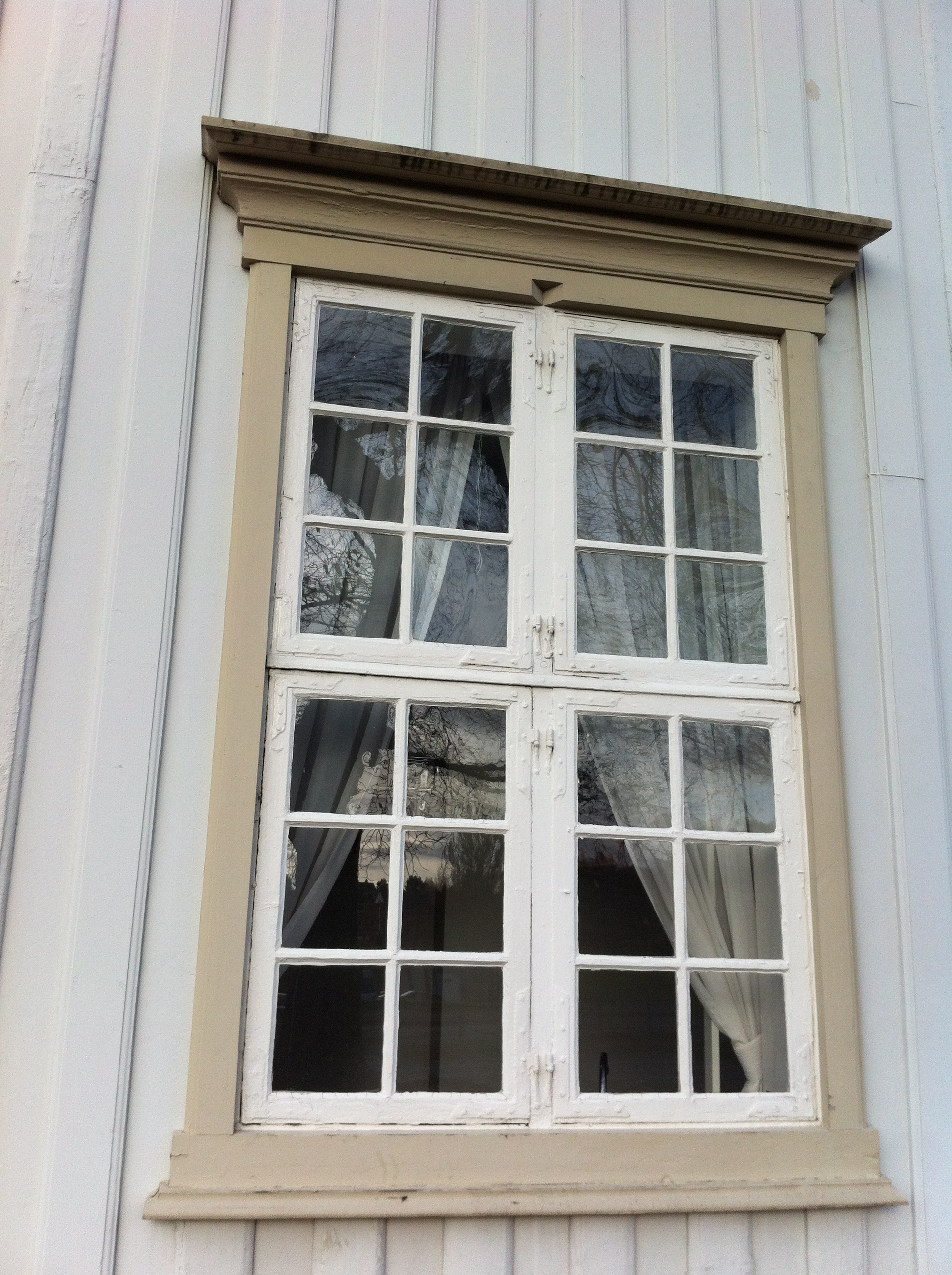 Lerchendal gård(=manor), Trondheim, Norway. Typical window in the main building, erected in 1762. (Moved to this site around 1773)